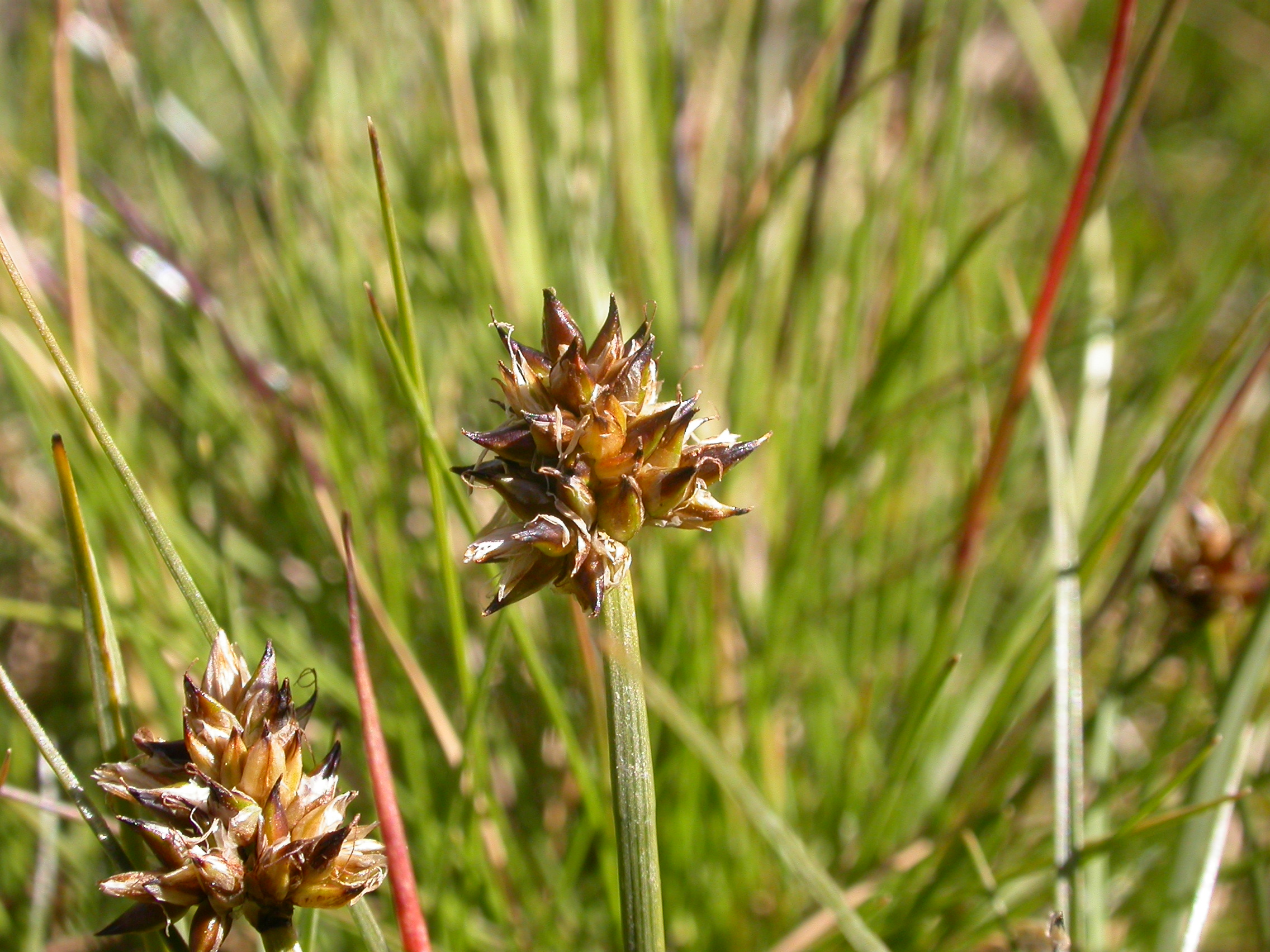 Carex maritima Zermatt, Riffelsee (Kanton Wallis, Switzerland), 2700 m Author: Barbara Studer – own photograph Date: 2.08.06